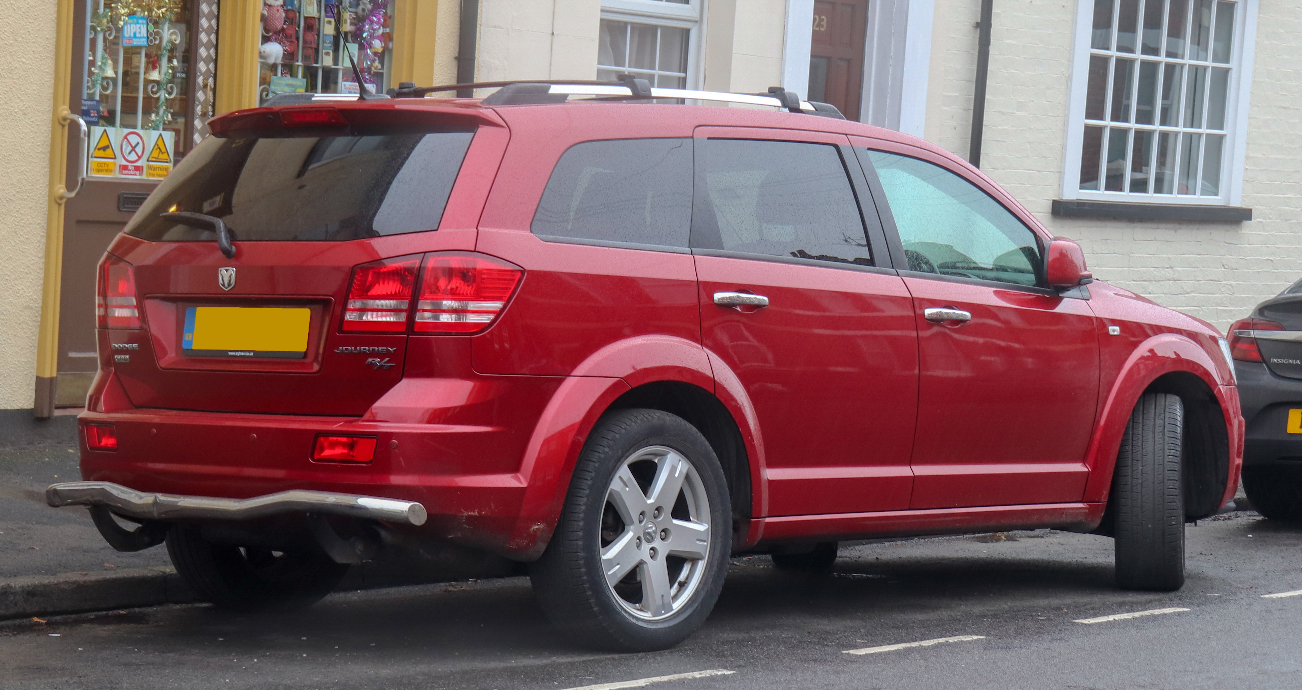 2010 Dodge Journey RT CRD 2.0 Rear Taken in Leamington Spa